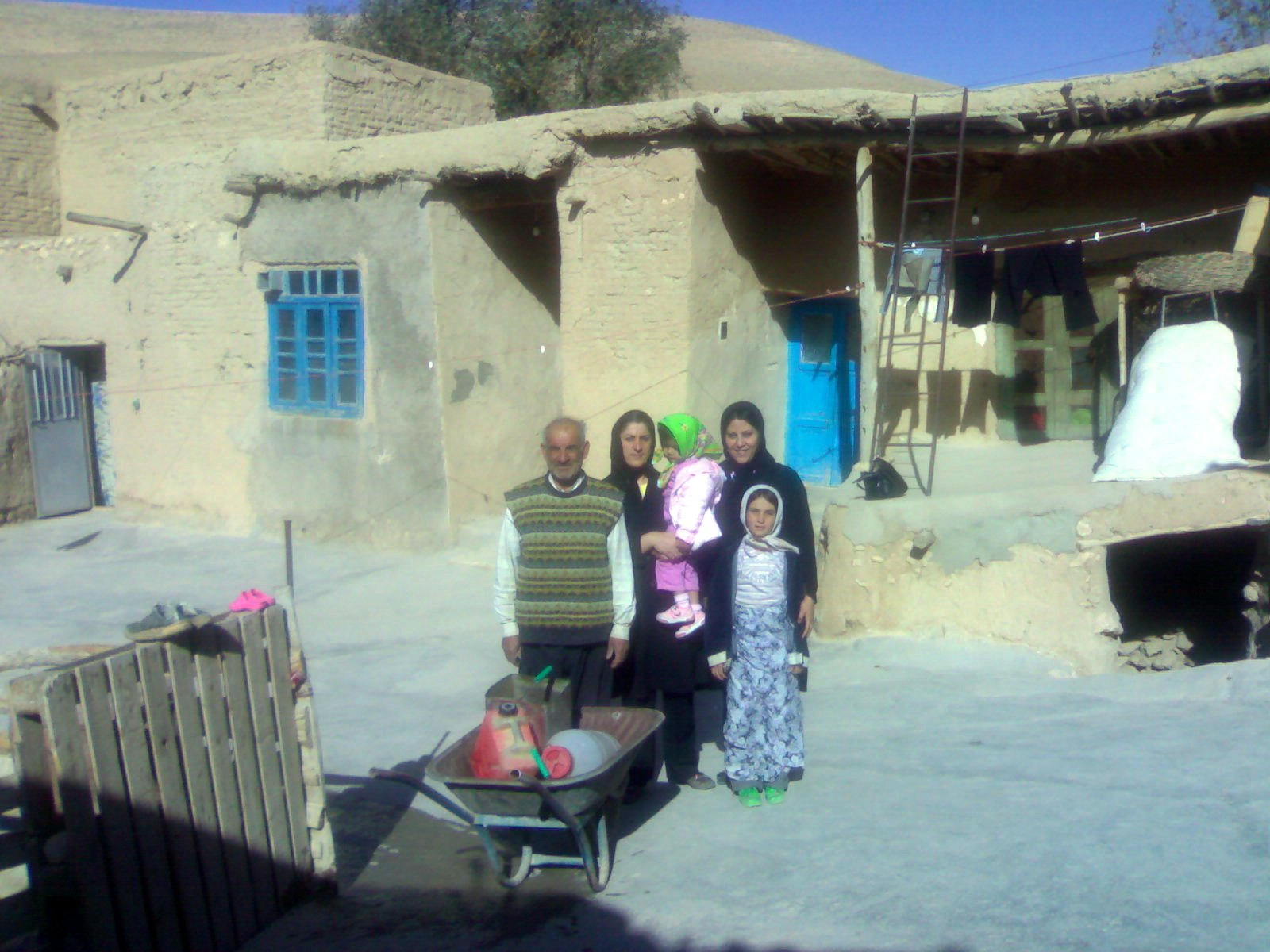 Village house